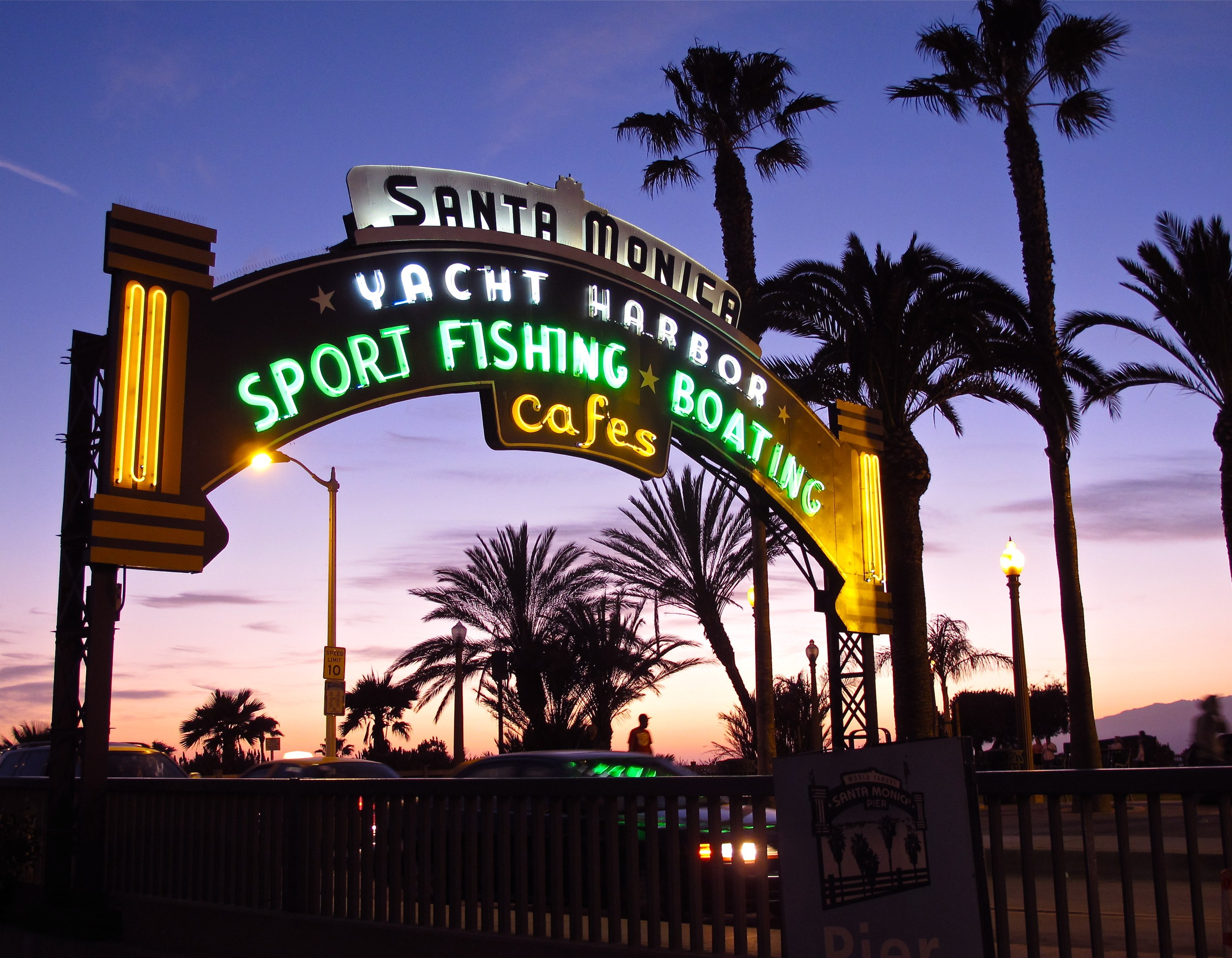 Entrance to the Santa Monica Pier, Santa Monica, California, at evening.